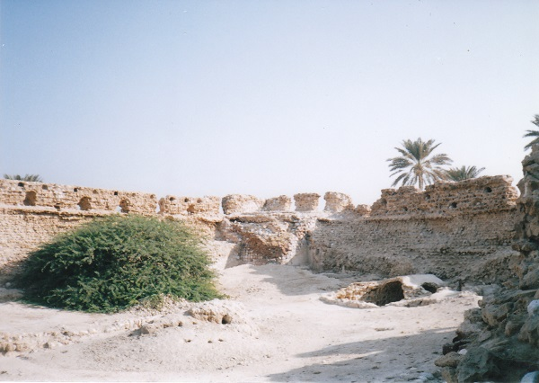 Portuguese Castle in the Qeshm island, Persian Gulf, 2006 - Photo: Persian Dutch Network